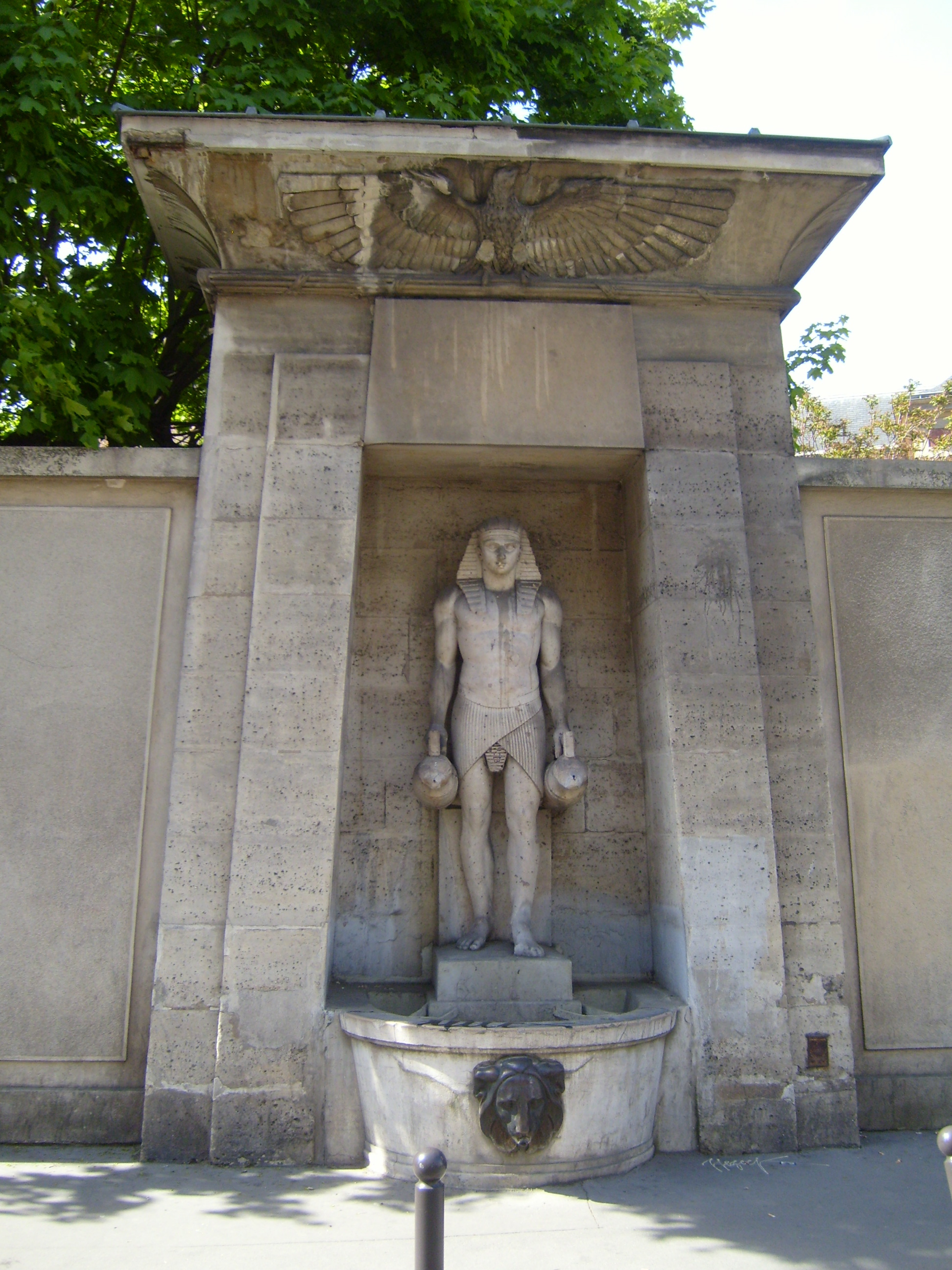 The Fontaine du Fellah, Rue de Sevres, Paris (7th arrondissement) built in 1806 by Louis-Simone Bralle